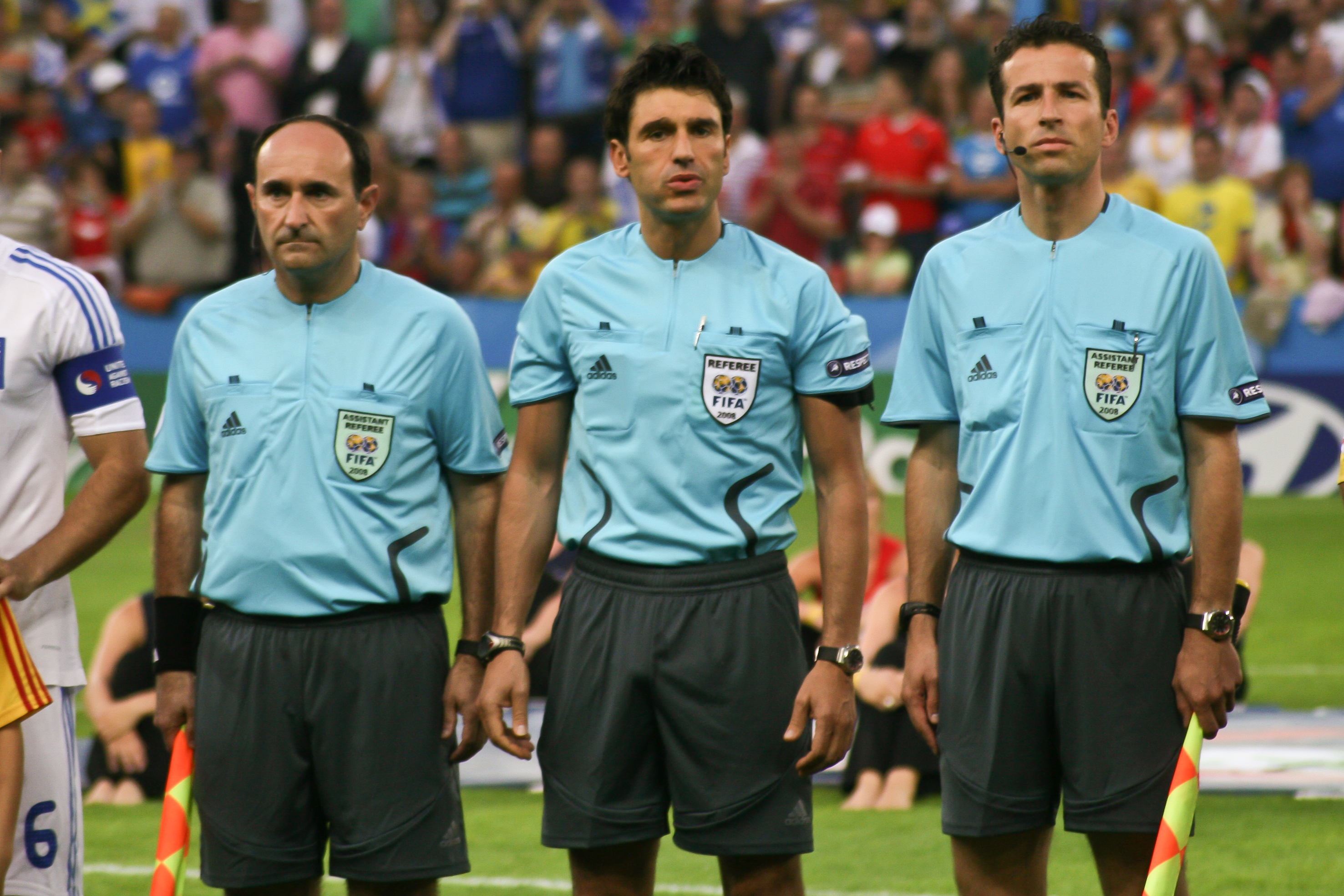 Left to right: Stéphane Cuhat, Massimo Busacca and Matthias Arnet. Greece vs Sweden in Salzburg during UEFA Euro 2008